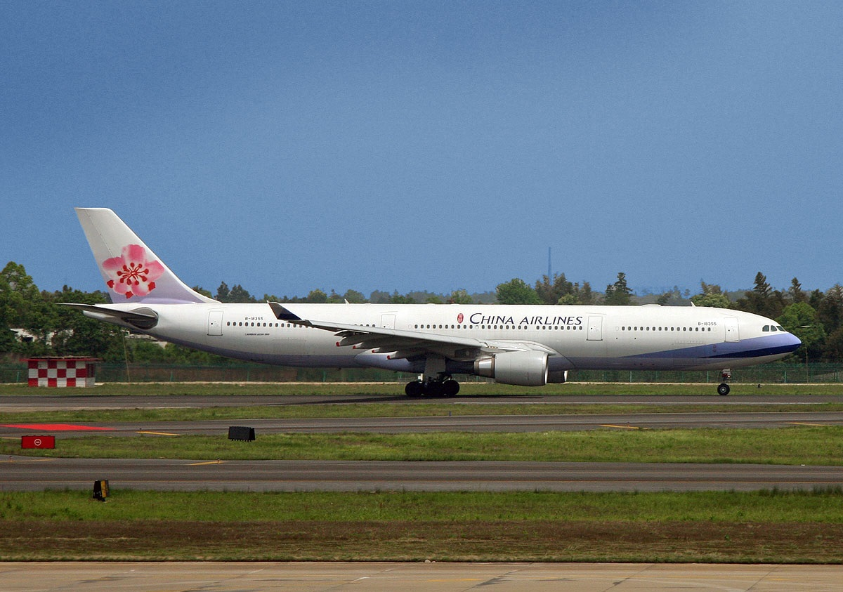 A China Airlines A333 is ready to take off at Changsha Huanghua Int' Airport on April 23, 2011